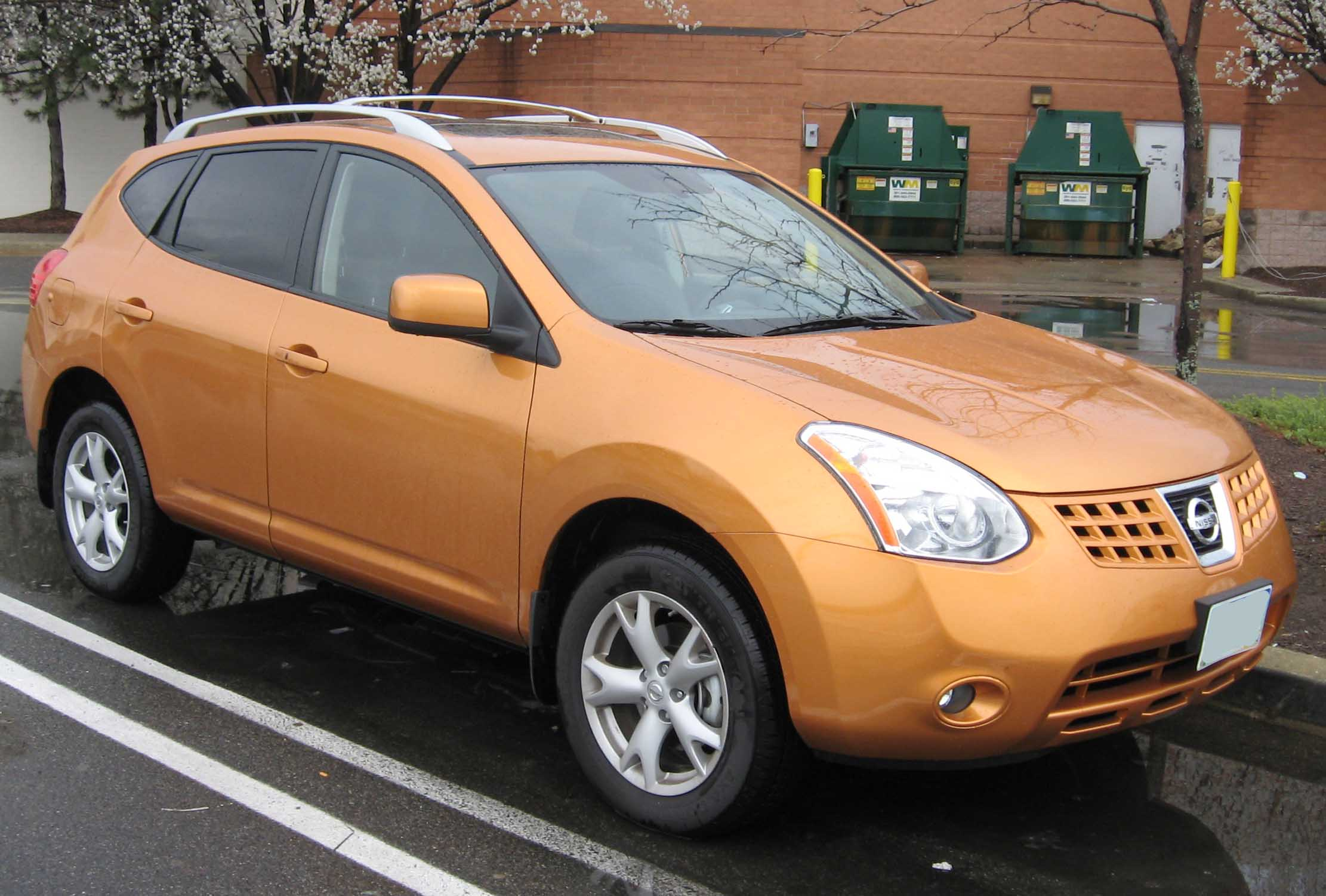 2008 Nissan Rogue photographed in Waldorf, Maryland, USA.